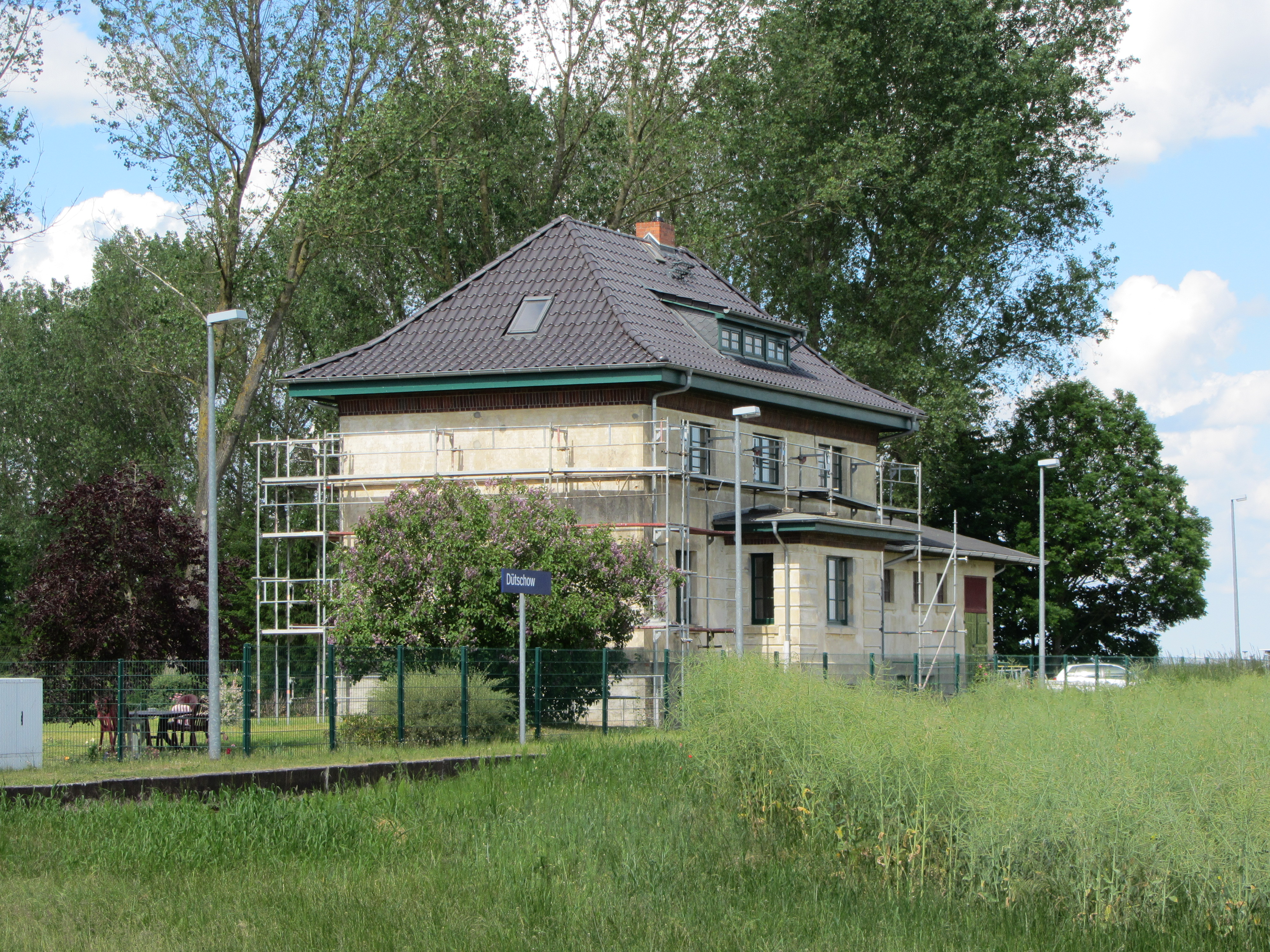 Former train station building in Dütschow, district Ludwigslust-Parchim, Mecklenburg-Vorpommern, Germany